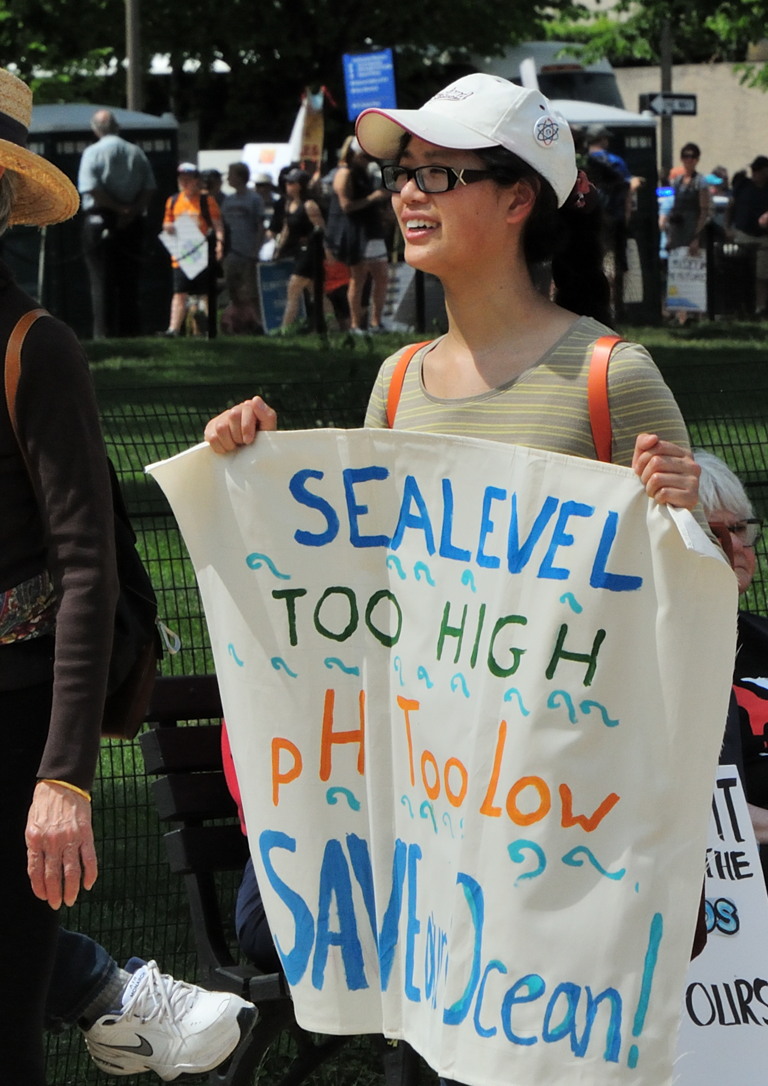 Placard "Sea level too high, pH too low, save our ocean", at the People's Climate March, in Washington DC on 29 April 2017.